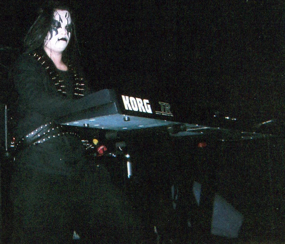 Description: CJ Kao performing with ChthoniC during their 2007 "UNLimited Taiwan" Tour. Source: My own personal photo, take in-concert Date: July 13th, 2007 Location: Studio Seven, Seattle, Washington, United Stated of America Author: Fugitivedread (user) Permission: Creator agreed to release this under the conditions of the CC-BY-SA 2.0.